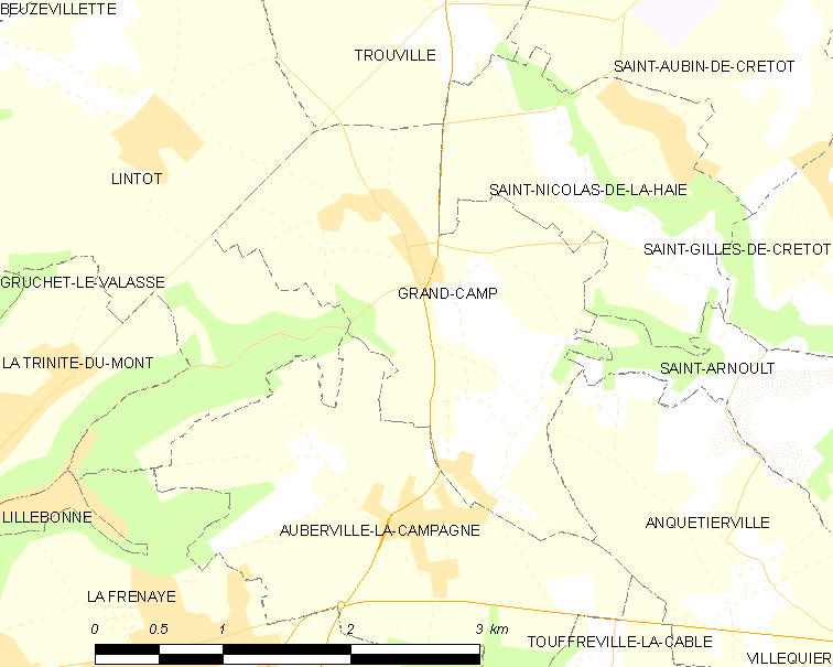 Map of French municipality Grand-Camp